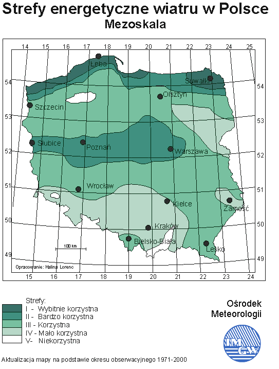 Zones of wind energy in Poland